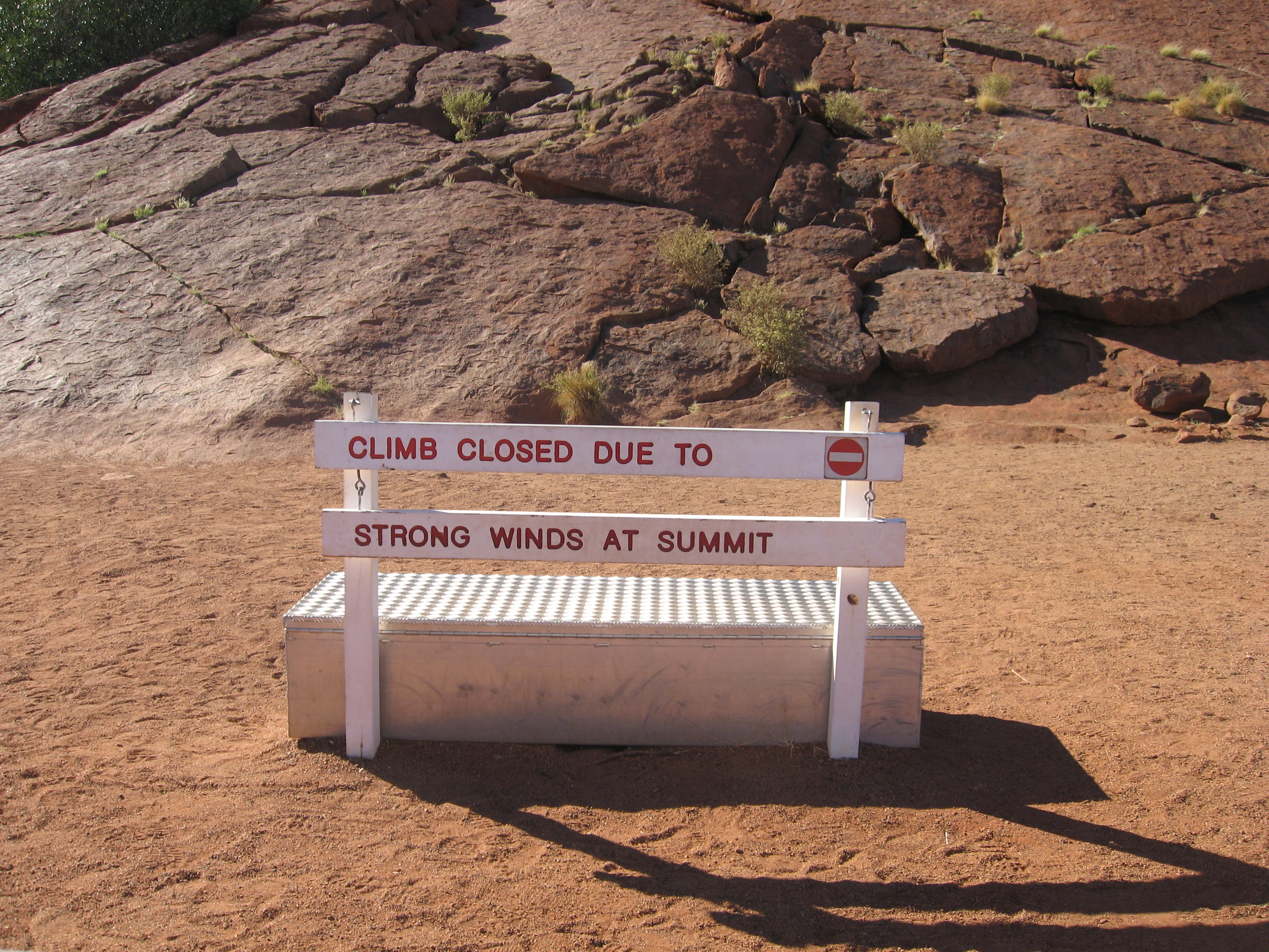 Picture of warning sign; stating that the climb along the top of Uluru being closed.